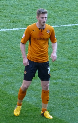 Henry during Wolves vs Rotherham (18.04.2014)